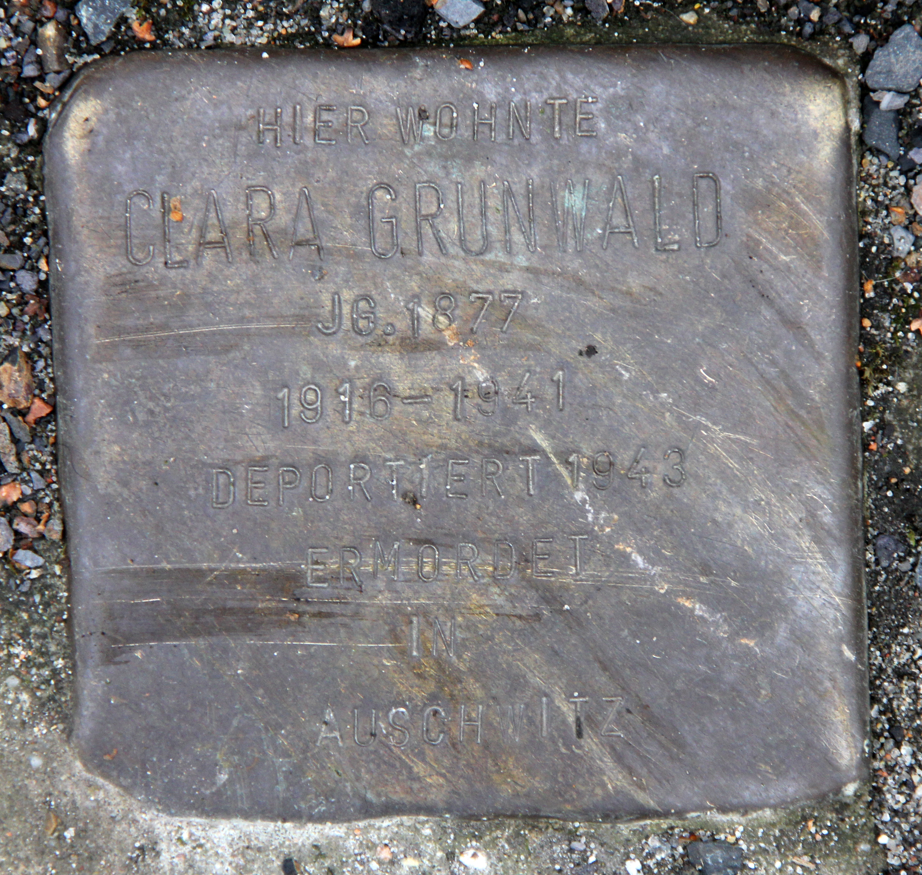 "Stolperstein" (stumbling block), Clara Grunwald, Cuxhavener Straße 18, Berlin-Hansaviertel, Germany